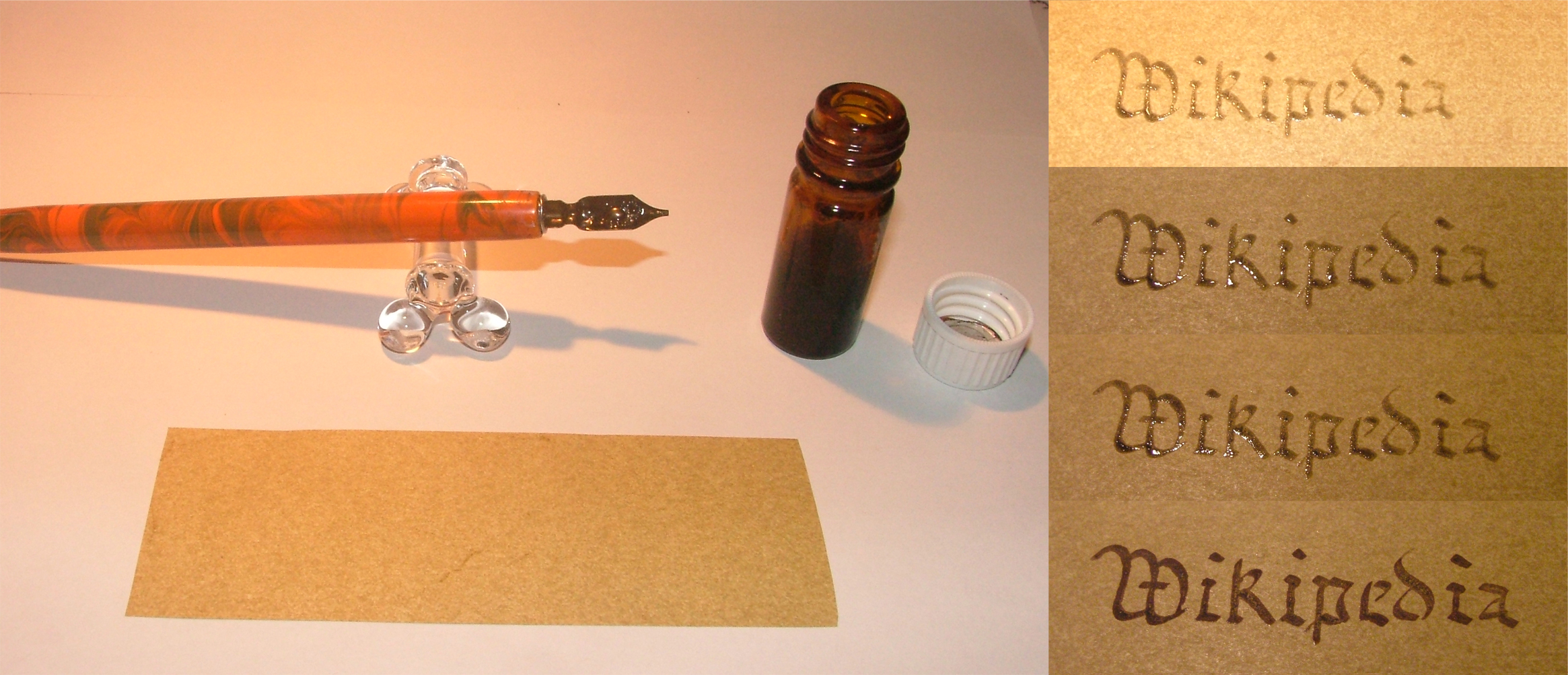 "Wikipedia" written with self-made iron gall ink, and photographed at different times. (First image immediately, second after 8 seconds. third after 40 seconds, fourth after 3 minutes.)